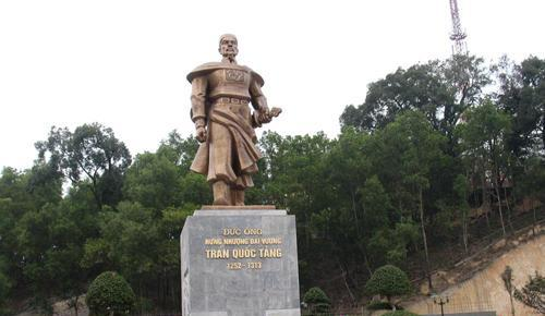 Bronze statue of General Tran Quoc Tang in Cua Ong temple, Cam Pha, Quang Ninh, Viet Nam